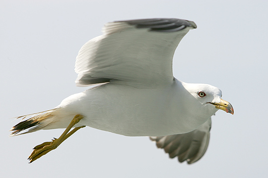 Gull in flight (it's a Black-tailed Gull Larus crassirostris Dysmorodrepanis 08:10, 27 September 2006 (UTC))